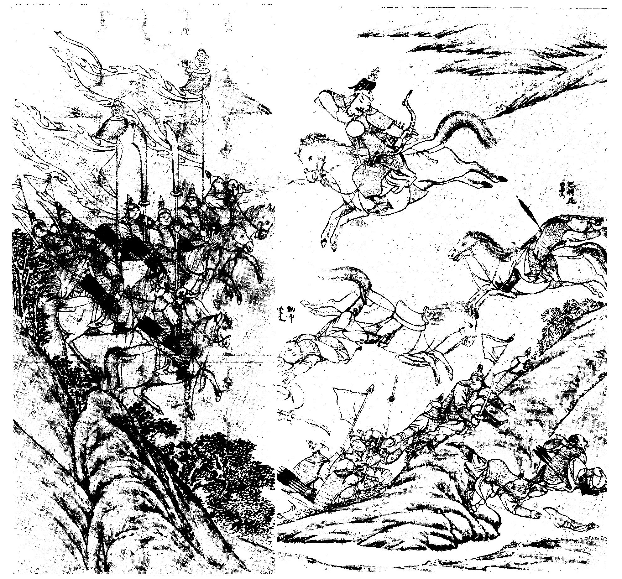 弩尔哈齐戰殺訥申、巴穆尼